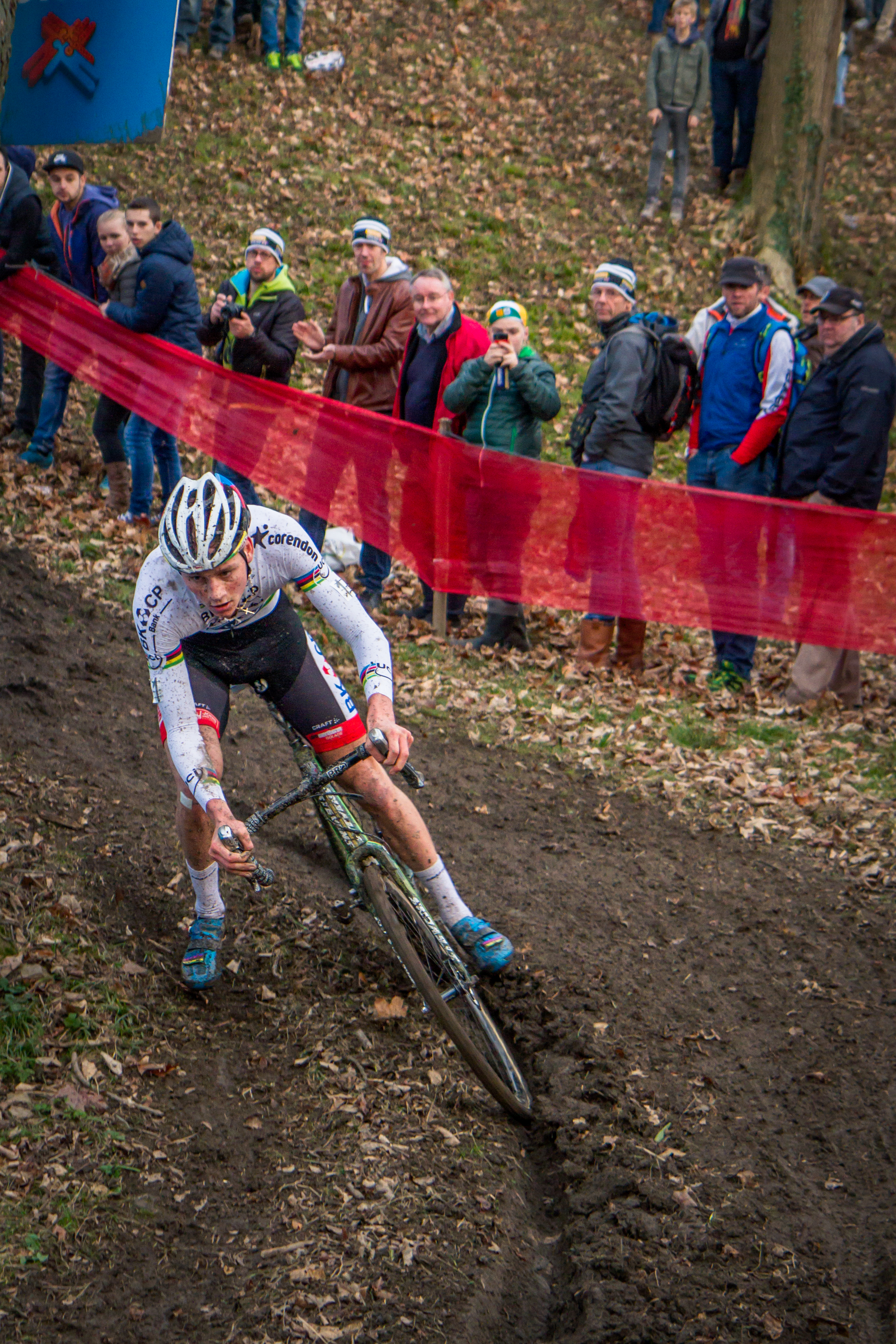 Mathieu van der Poel (NLD), 2015 world CX champion, of BKCP/Powerplus. UCI Cyclocross World Cup, Namur, 2015.